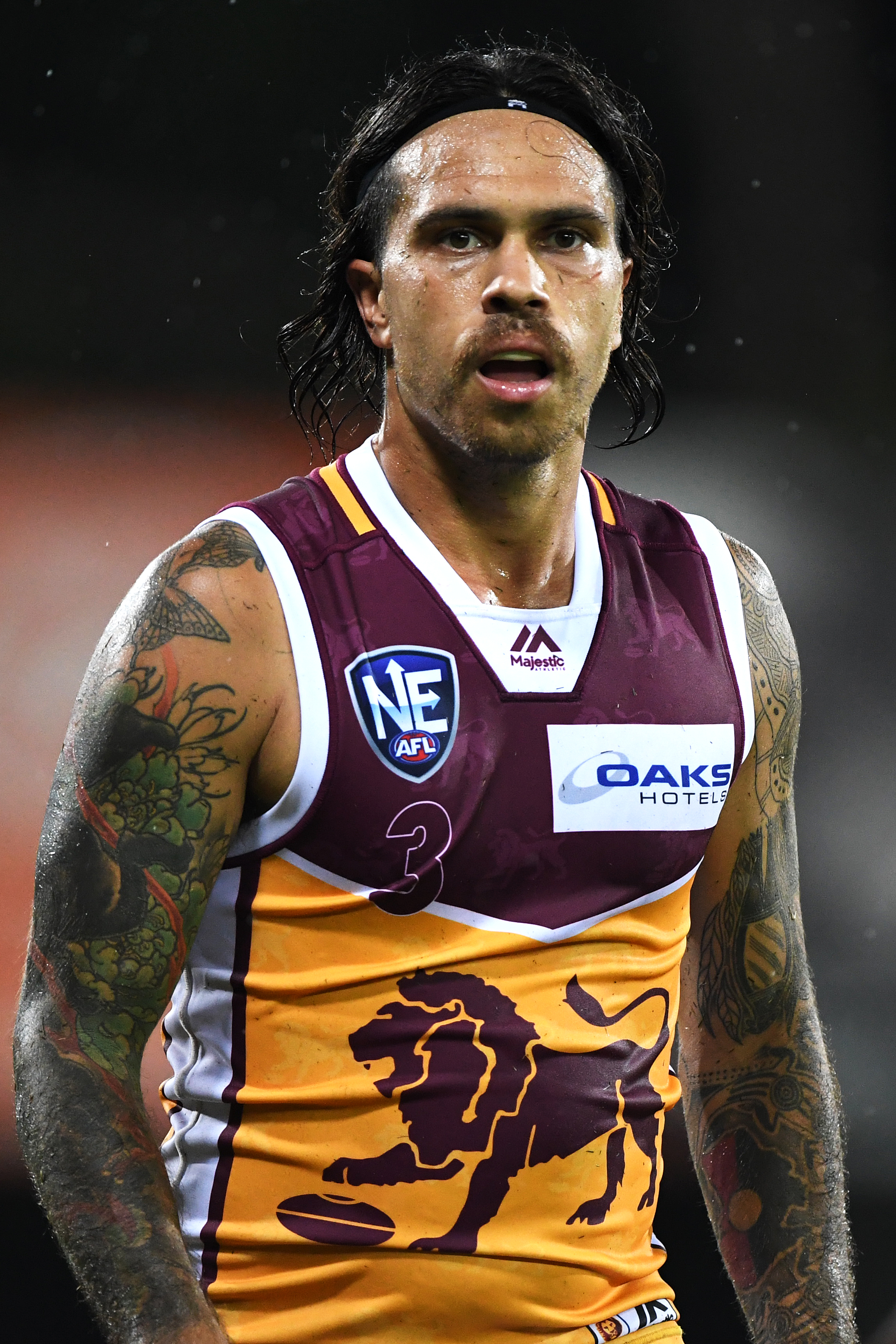 Allen Christensen of the Brisbane Lions during the NEAFL round one match between NT Thunder and Brisbane Lions at TIO Stadium on 6 April 2019 in Darwin, Australia.